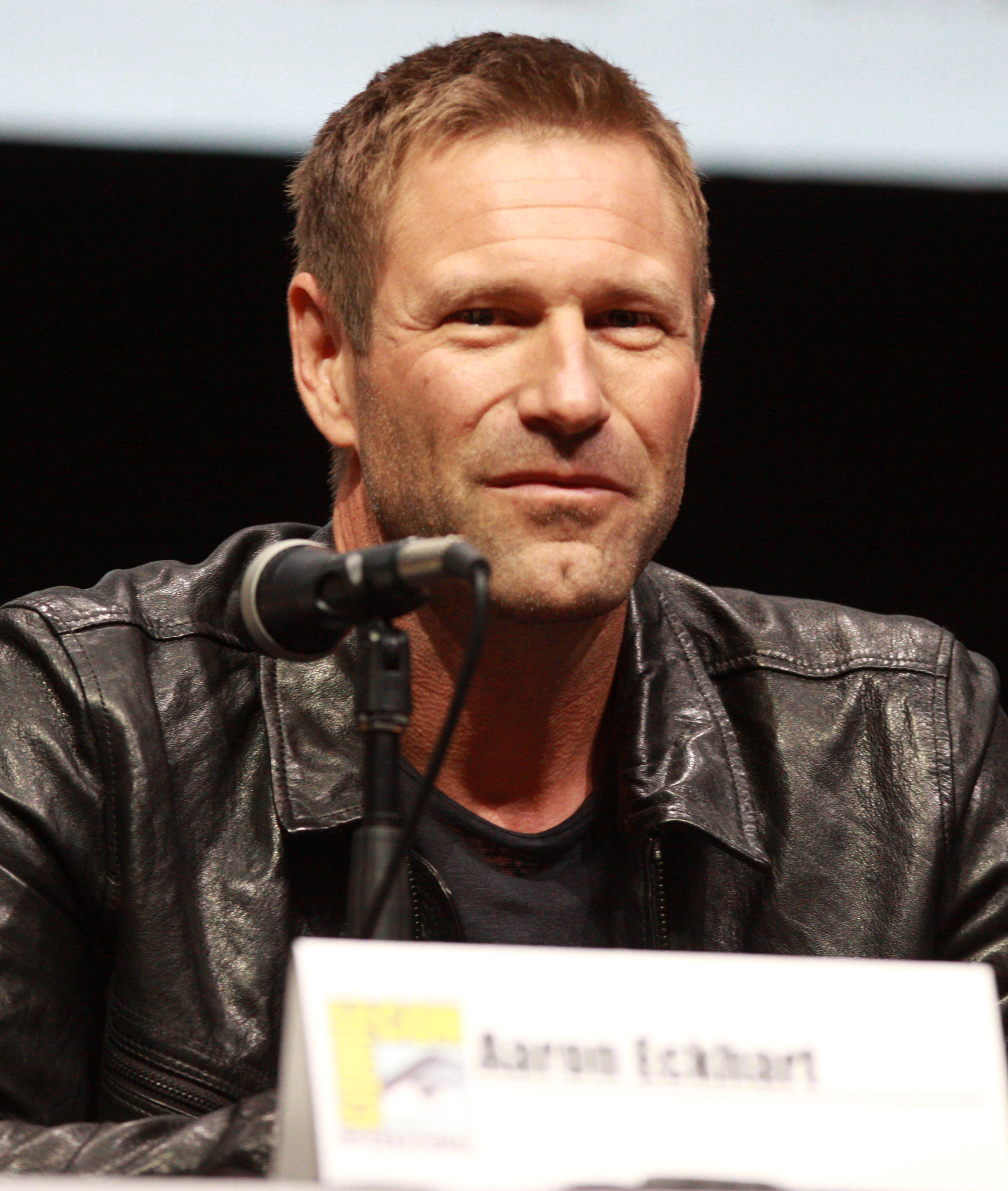 Aaron Eckhart at the 2013 San Diego Comic Con International in San Diego, California.